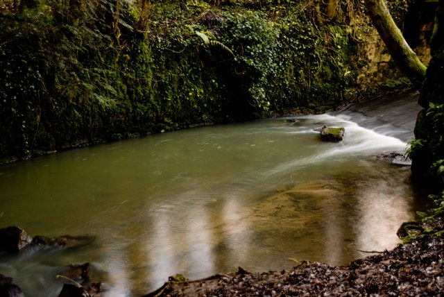 The River Bourne in full flow